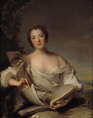 Painting of Marie Armande Victoire de La Trémouille, princesse de Turenne